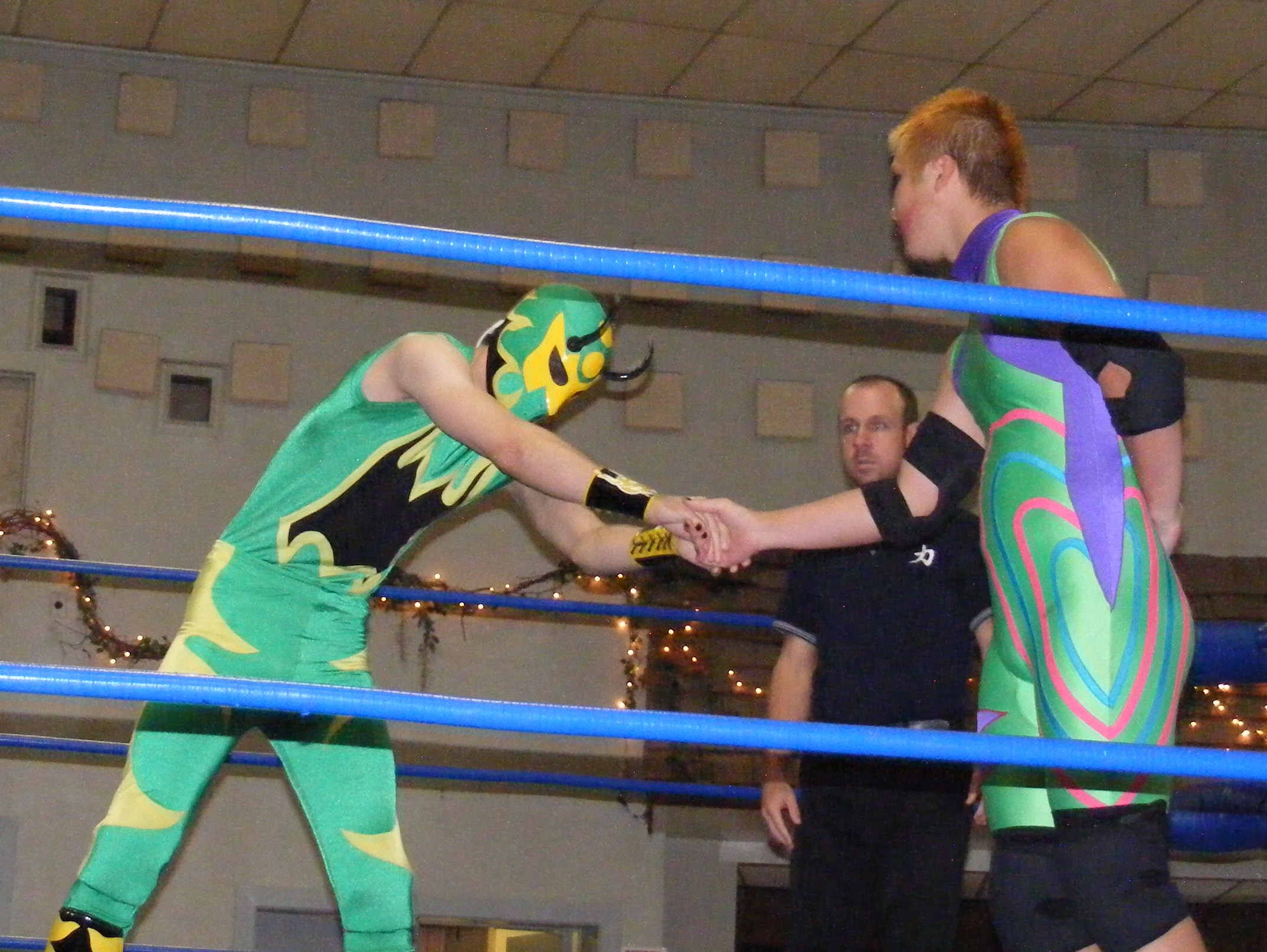 Professional wrestlers Green Ant and Keita Yano shaking hands prior to their match at Chikara Young Lions Cup VIII.